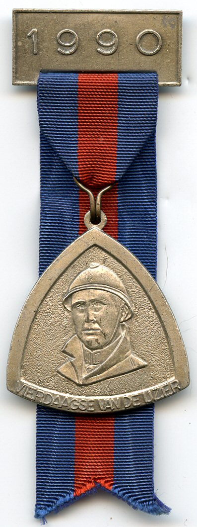 March of the "Four Days of the Yser" Commemorative Medal (Belgium)